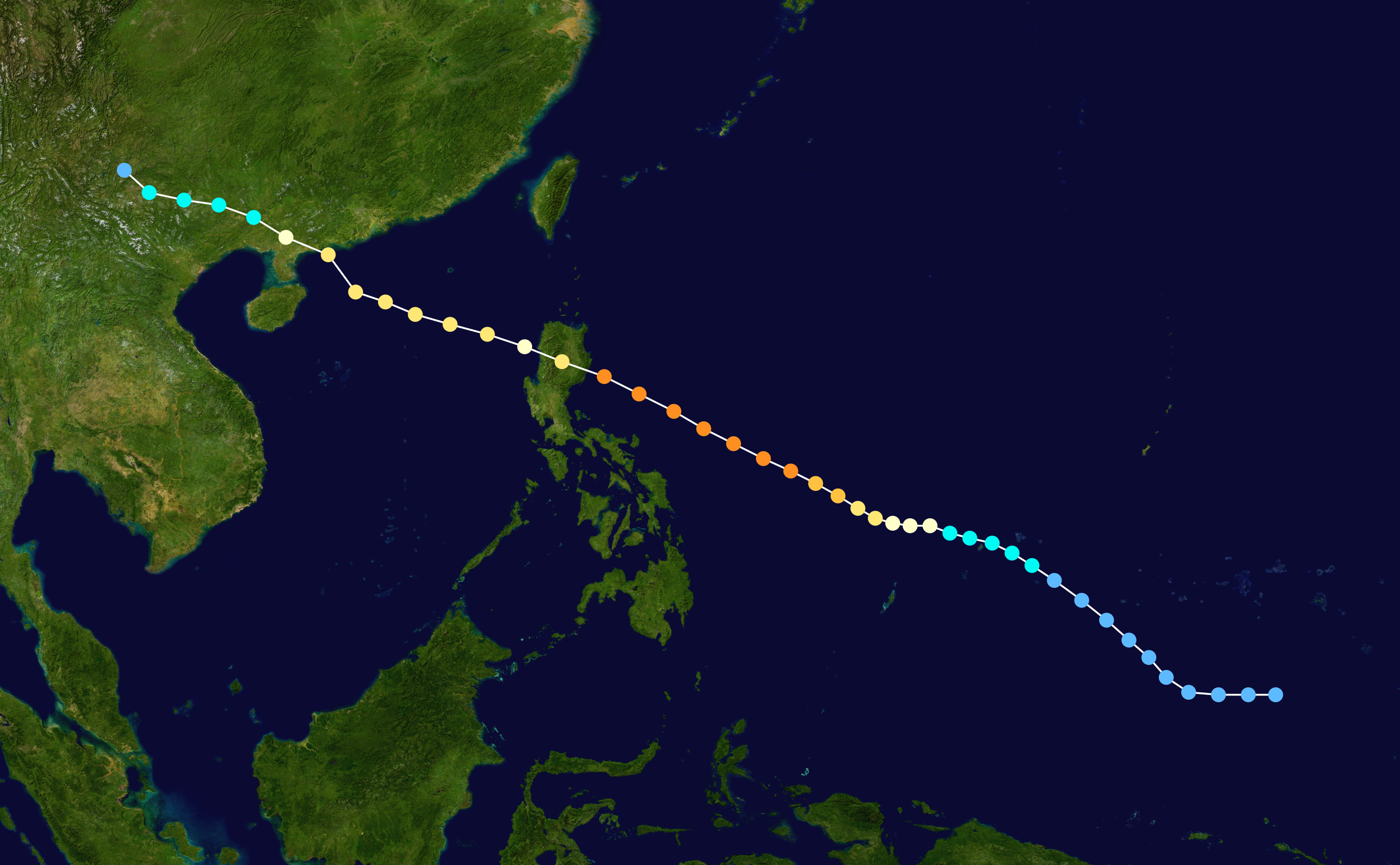 Typhoon Imbudo (2003) track. Uses the color scheme from the Saffir-Simpson Hurricane Scale.